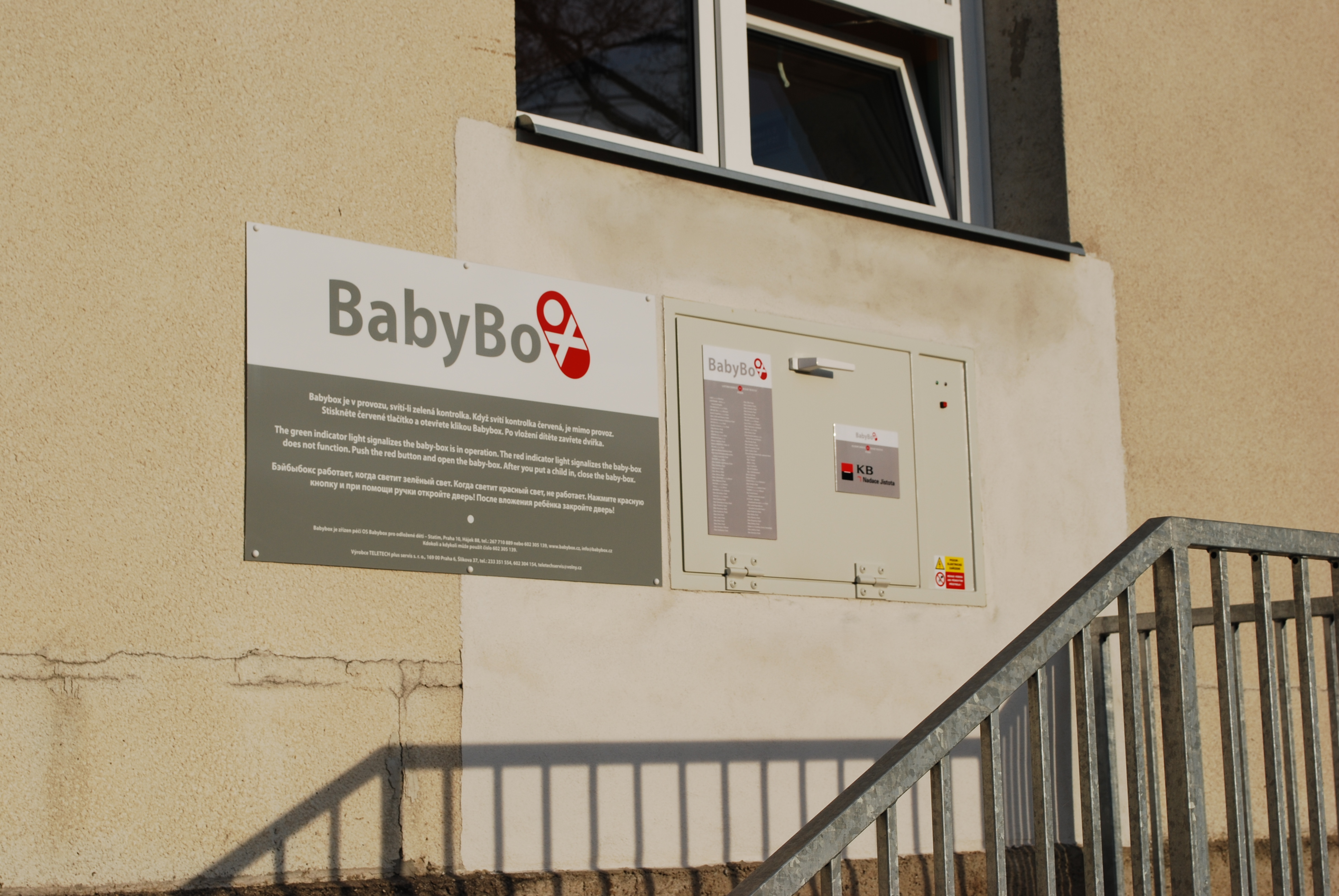 BabyBox in front of Písek Hospital in Písek, Písek District, Czech Republic. - Google Maps - Google Earth